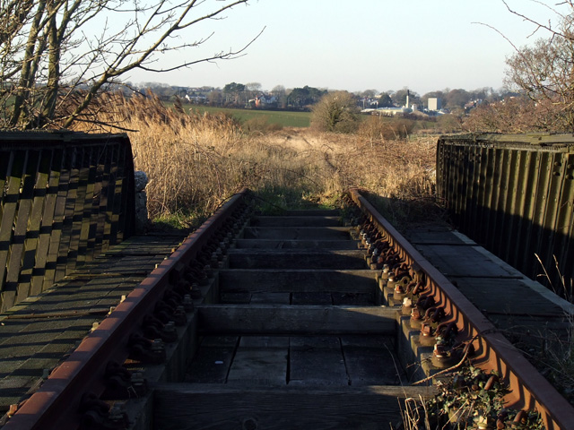 Railway lines on disused Bridge Railway lines on disused bridge on the outskirts of Llangefni